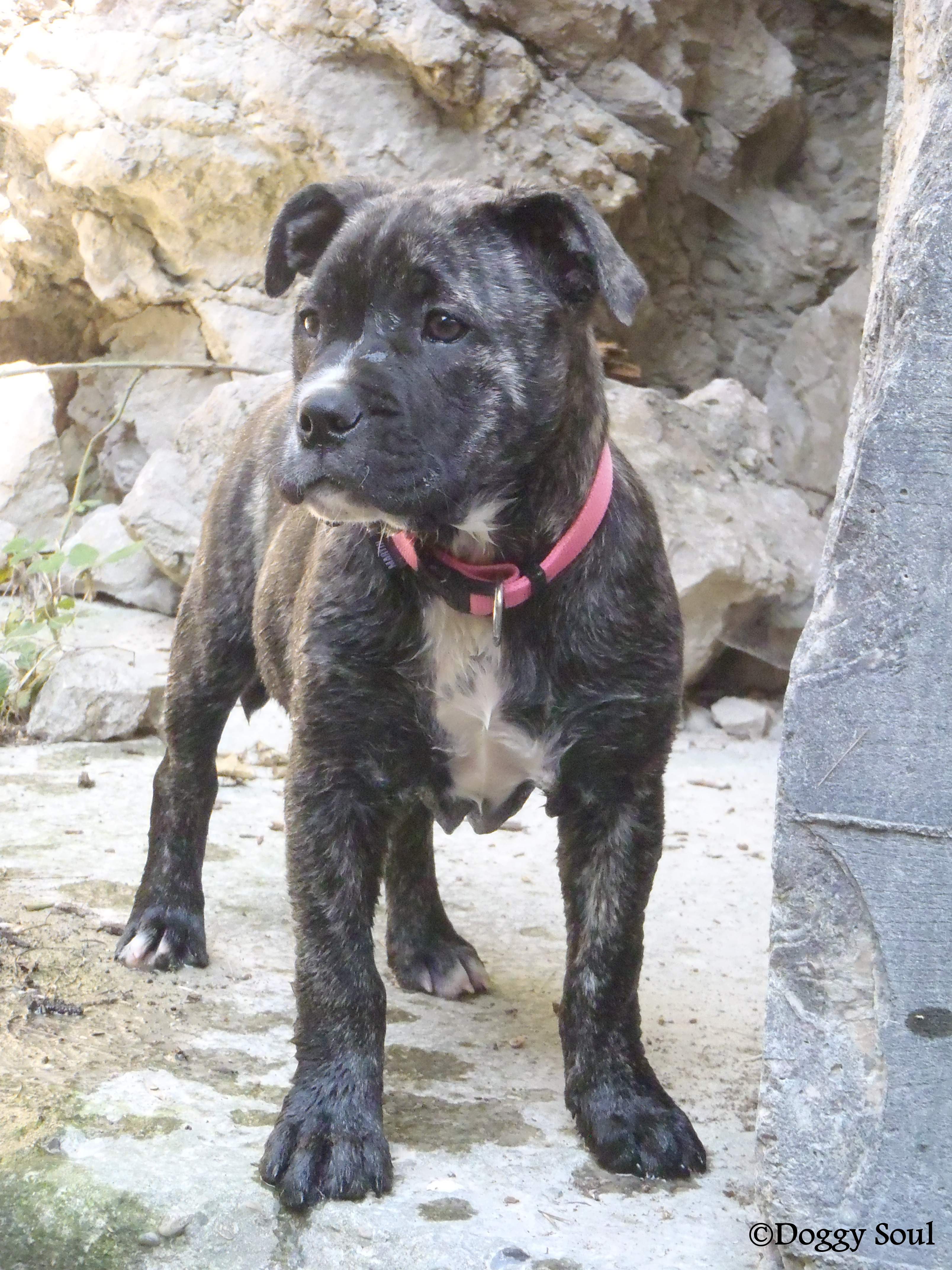 Bébé Ca De Bou bringé